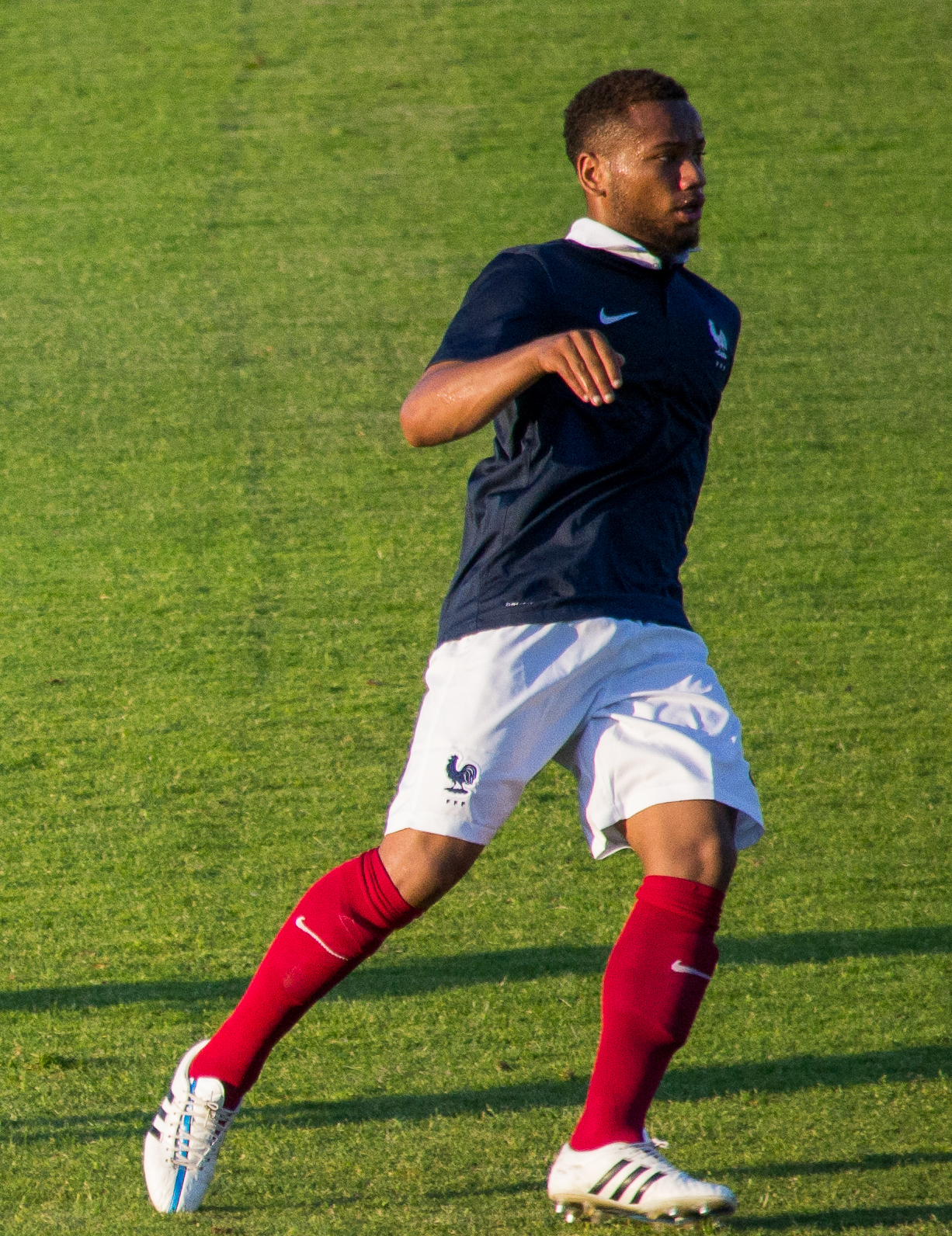 Marco Ilaimaharitra playing for France U-23 against Costa Rica in 2015 Toulon Tournament